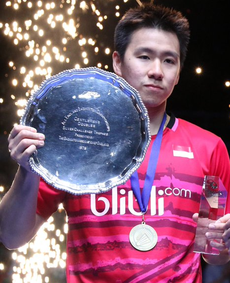 Kevin Sanjaya Sukamuljo and Marcus Fernaldi Gideon won the men's doubles title at the prestigious 2017 All England Open Badminton Championships